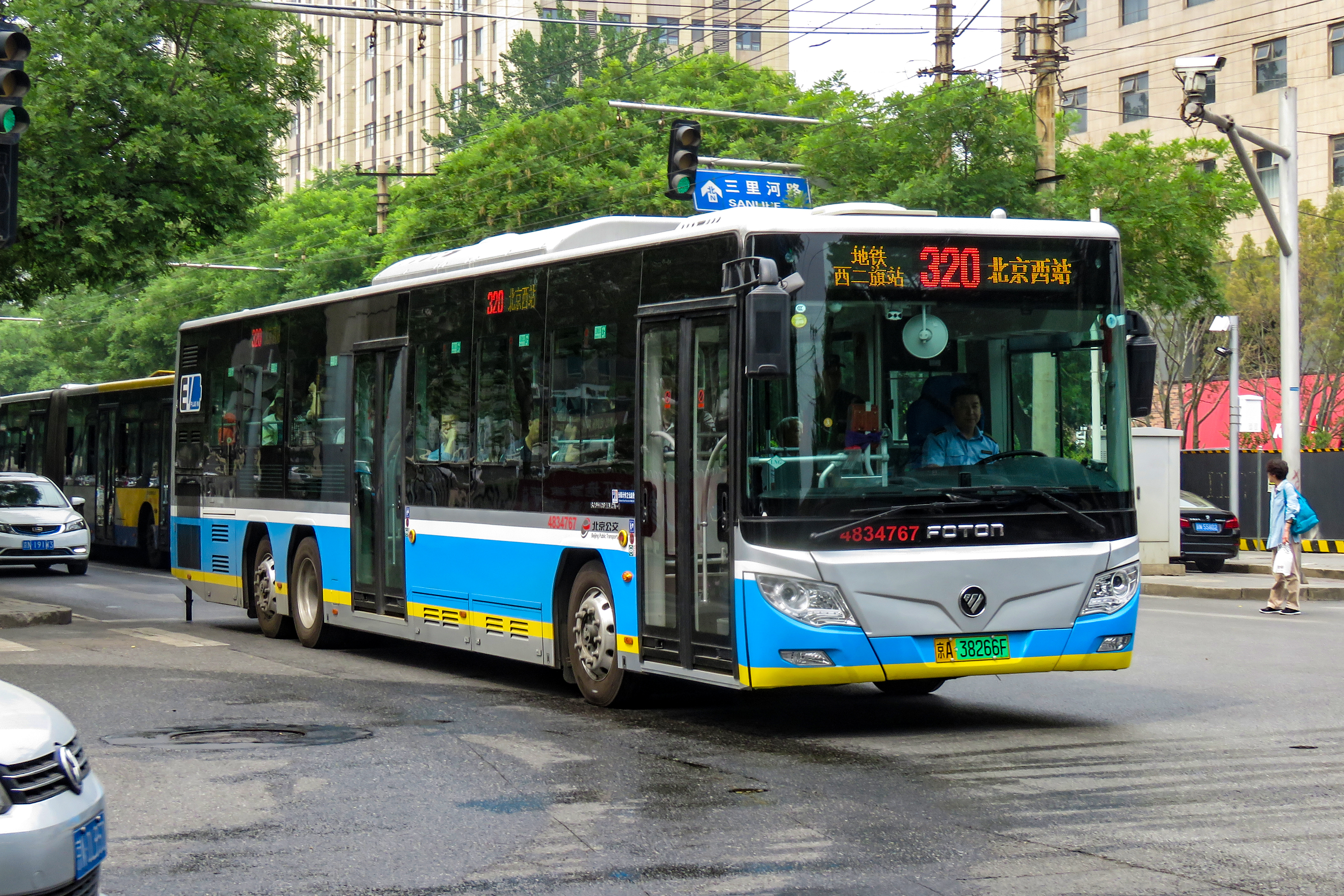 Only this one has its tracking function available... Its nearest neighbor in TMIS is 34757 (Mawei Railway Station, MWS).